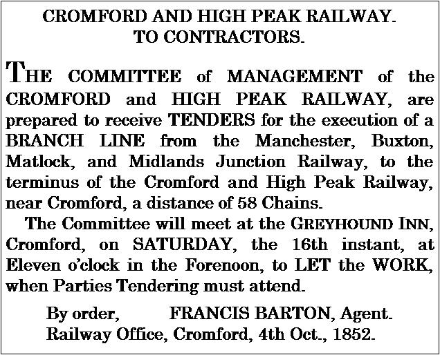 A facsimile of the advertisement seeking contractors to build the branch line to High Peak Junction